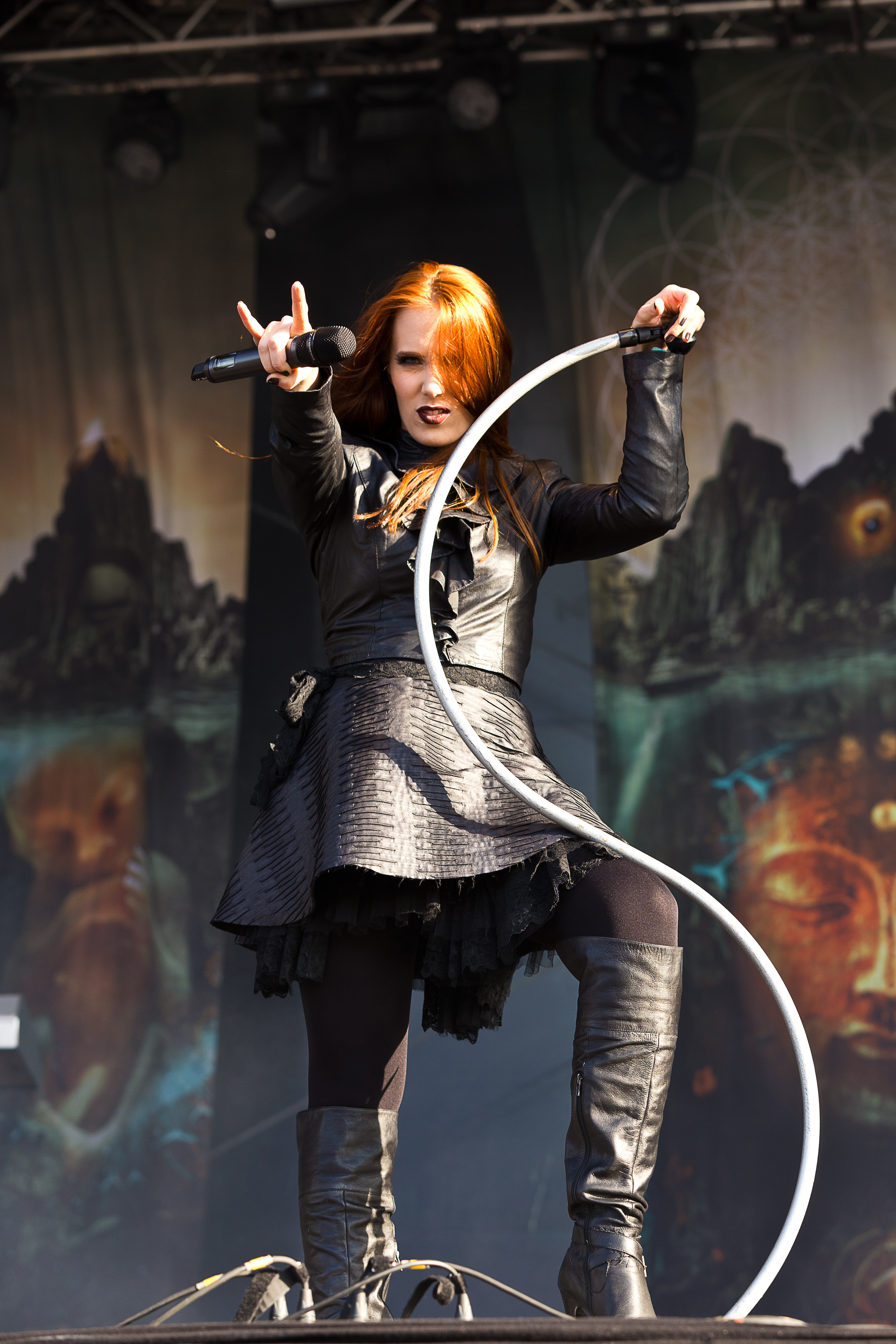 The Dutch symphonic metal band Epica at the Rockharz Open Air 2015 in Ballenstedt/Germany.